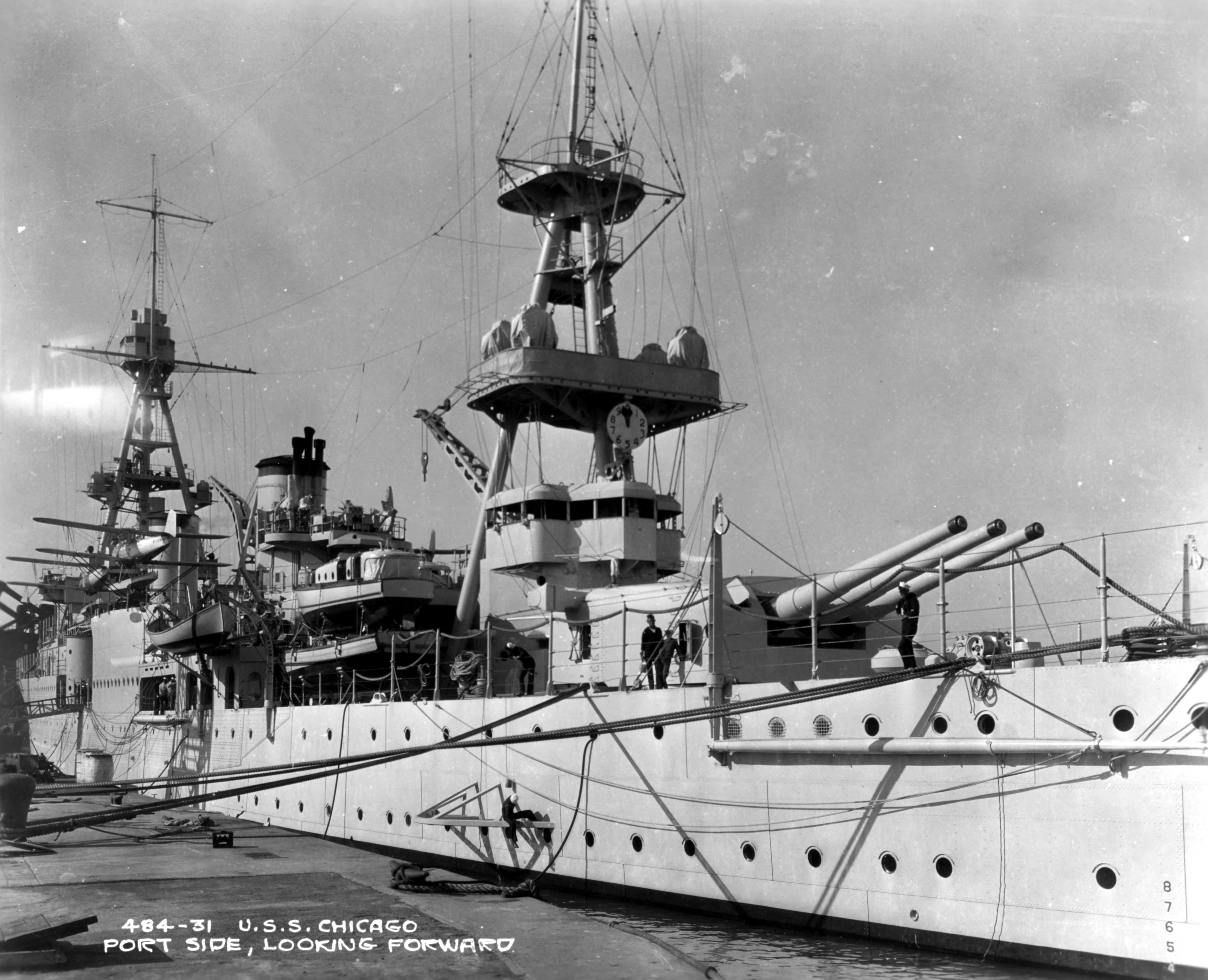 The U.S. Navy heavy cruiser USS Chicago (CA-29) at the Mare Island Naval Shipyard, California (USA), in 1931 (port side looking forward).